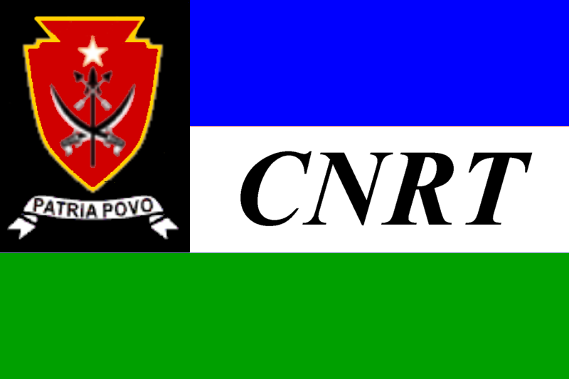 Flag of CNRT (National Council of East Timorese Resistance)